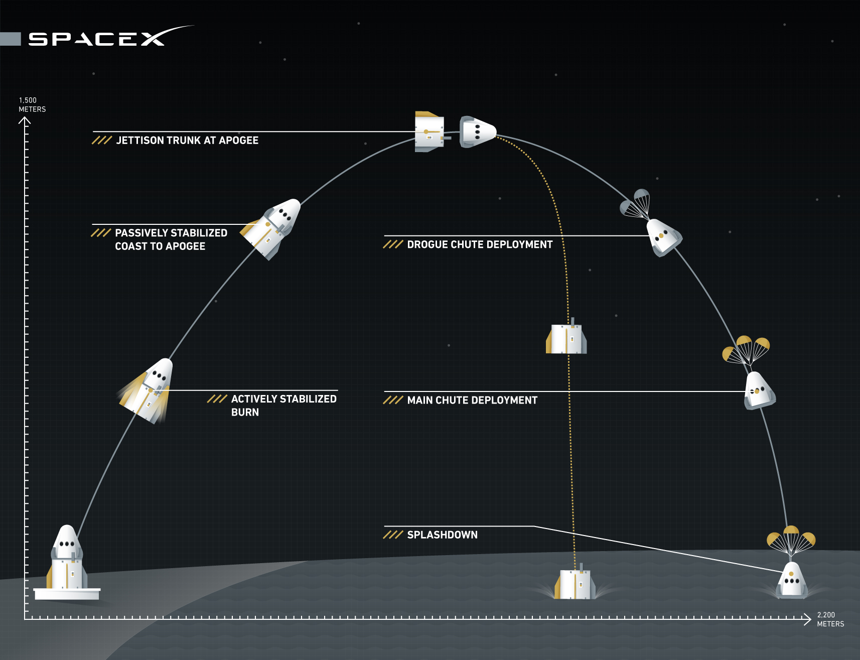 An infographic of the SpaceX Dragon 2 Pad Abort Test, which will carry the Dragon 2 vehicle away from a truss structure to simulate an abort from a launch vehicle that encounters a severe malfunction before first motion.